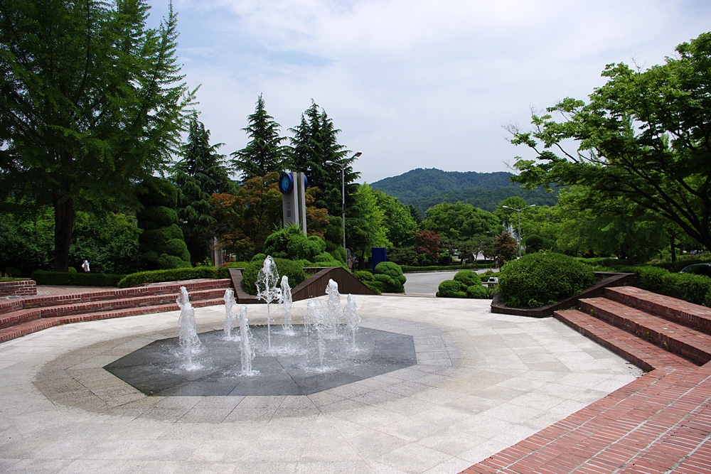 Clock Tower Fountain of Dankook university(Cheonan)